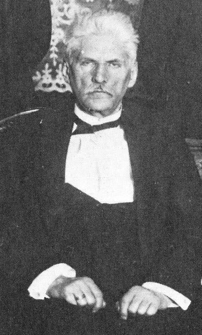 Otto von Hentig